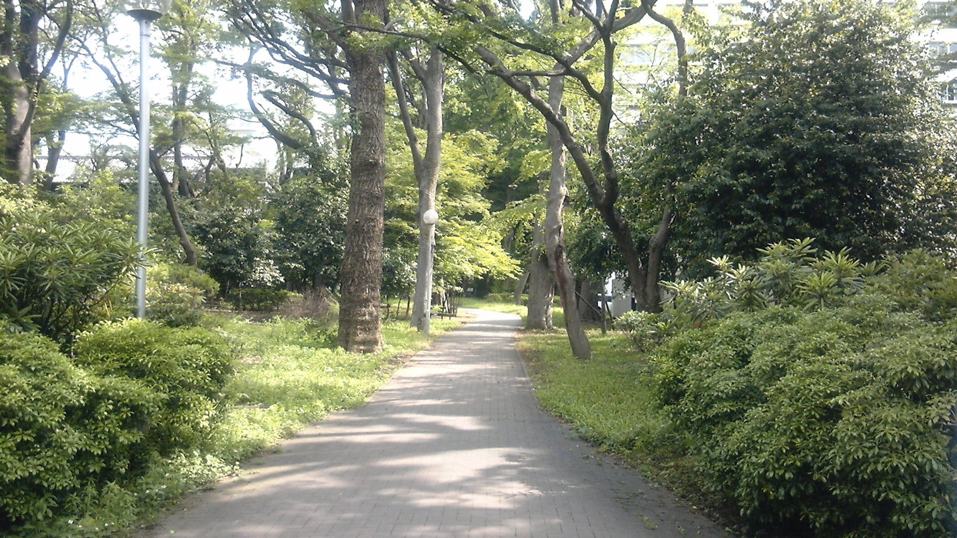 GakusyuinUniversity road